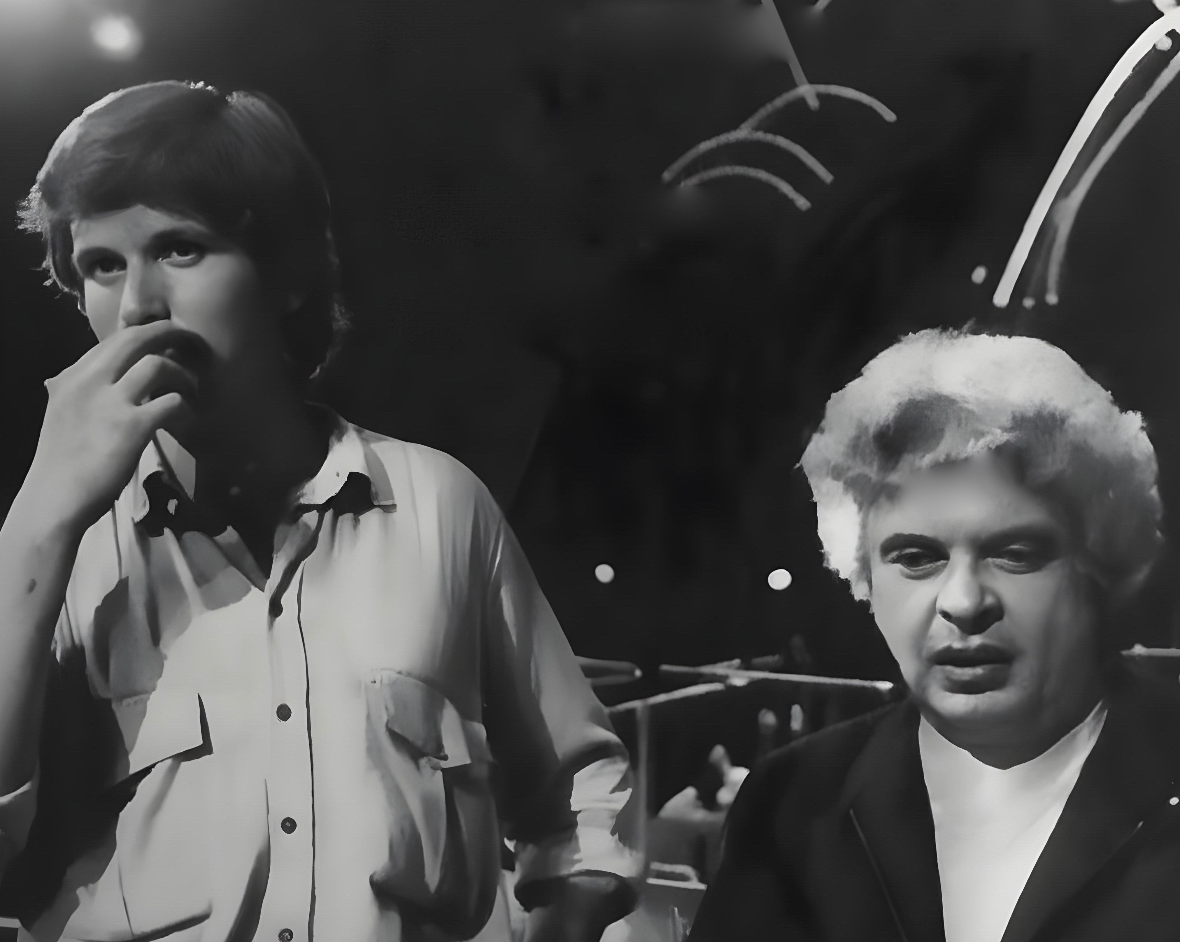 Maynard Ferguson was guest star on the noted TV show, Auditorio A (RAI2) backed by the orchestra conducted by Pino Presti